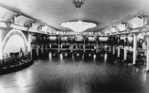 Photograph of the interior of Cloudland ballroom, Bowen Hills, Queensland, ca. 1950. The Cloudland Dance Hall was demolished on 7 November 1982.